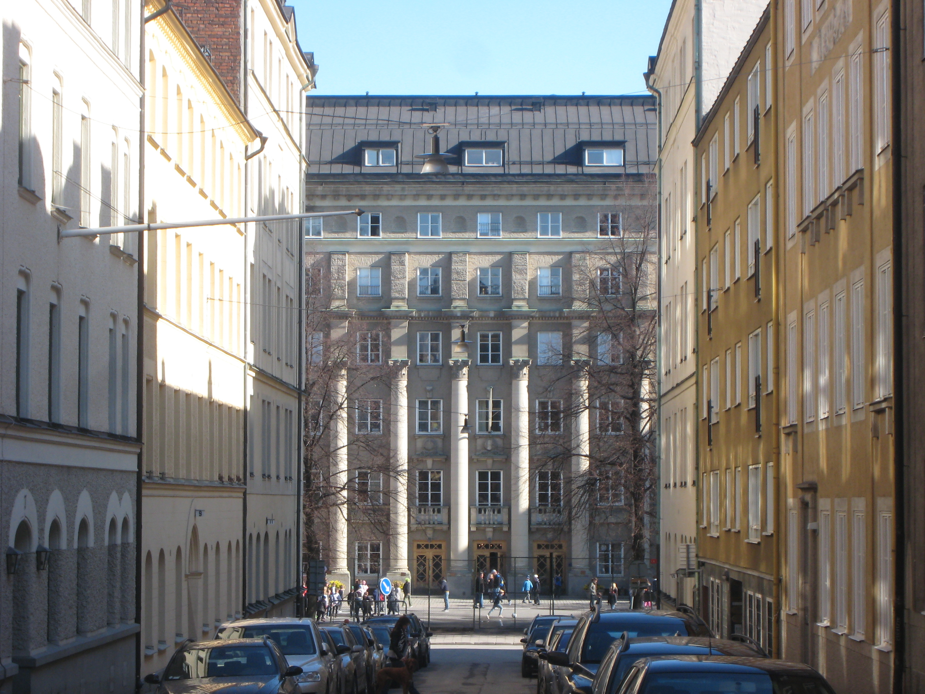 Carlssons skola